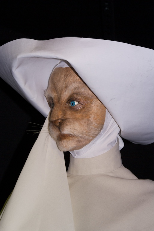 Sisters of Plenitude Doctor Who Experience